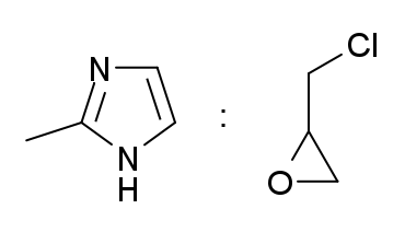 Colestilan (INN), a bile acid sequestrant.